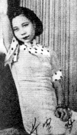 Chinese silent film actress and screenwriter Ai Xia